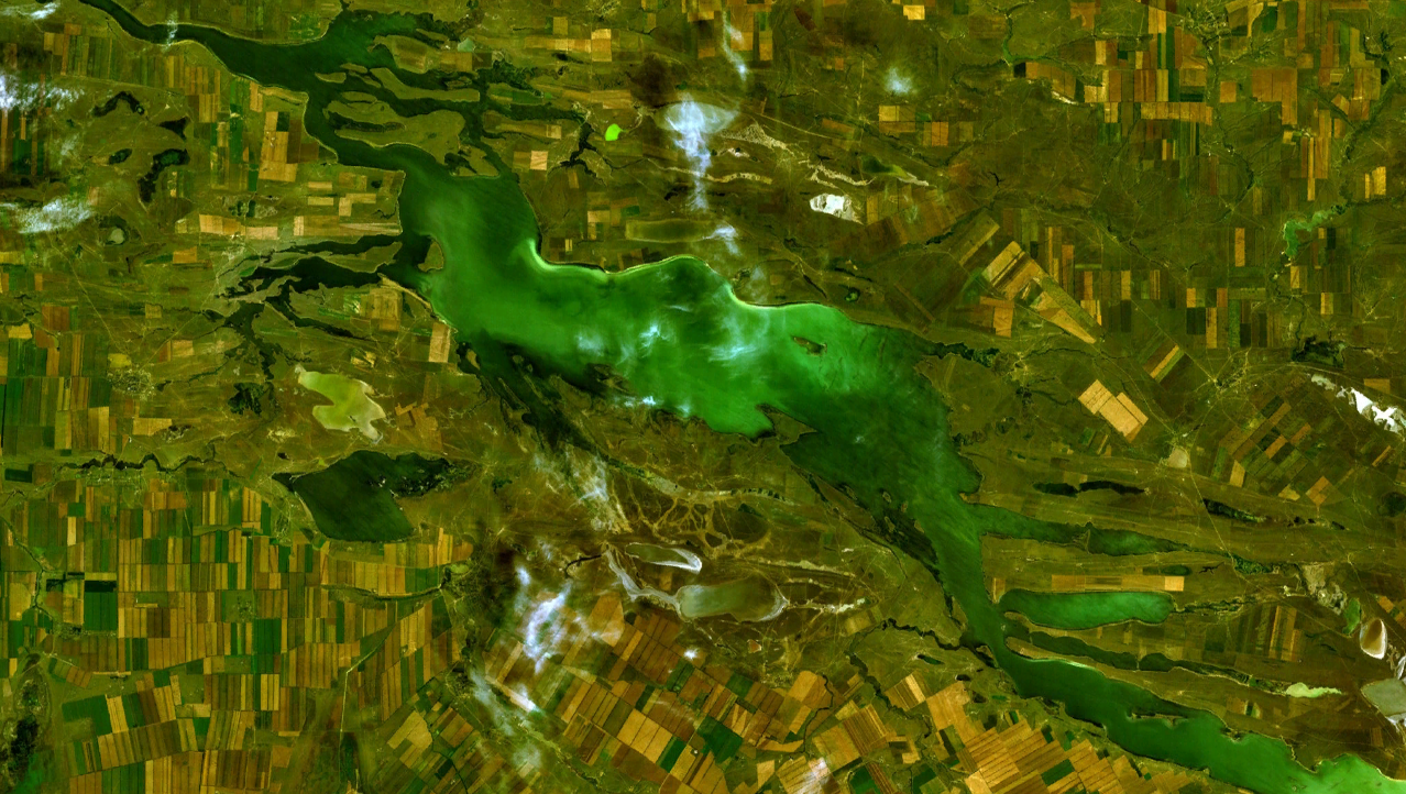 A satellite image of Lake Manych-Gudilo.